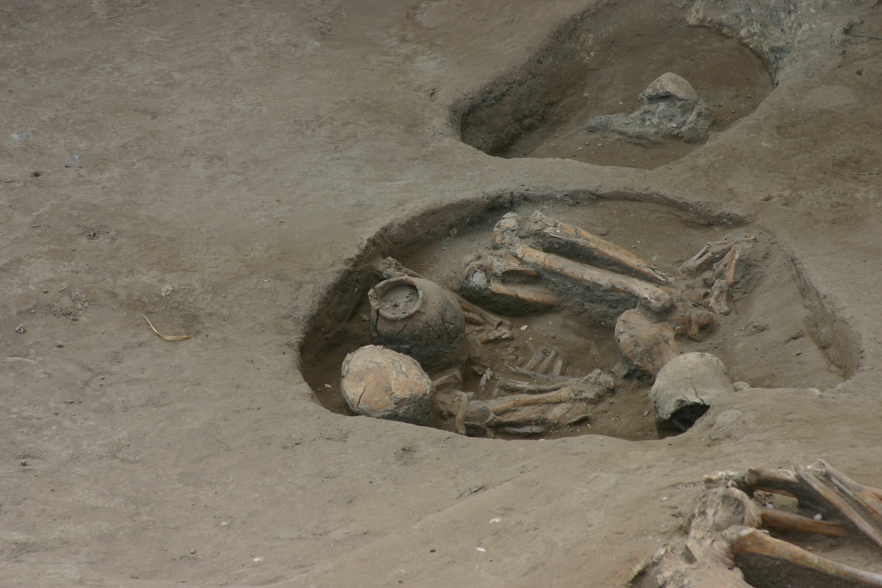 Skeletons and pottery in Tell Sabi Abyad (detail)